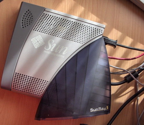 Sun Ray of Sun Microsystems. Self-made by Pieter Priem using HP PhotoSmart R707